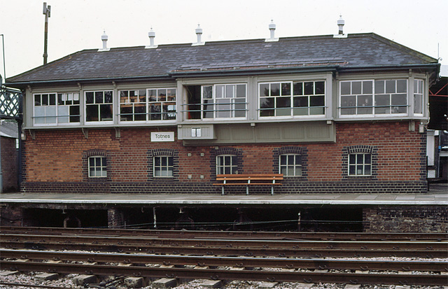 Totnes Signal Box A large Great Western Railway box located on the platform at Totnes station. The space beneath the platform allowed access for the linkages to the signals and points in the area covered by the box.